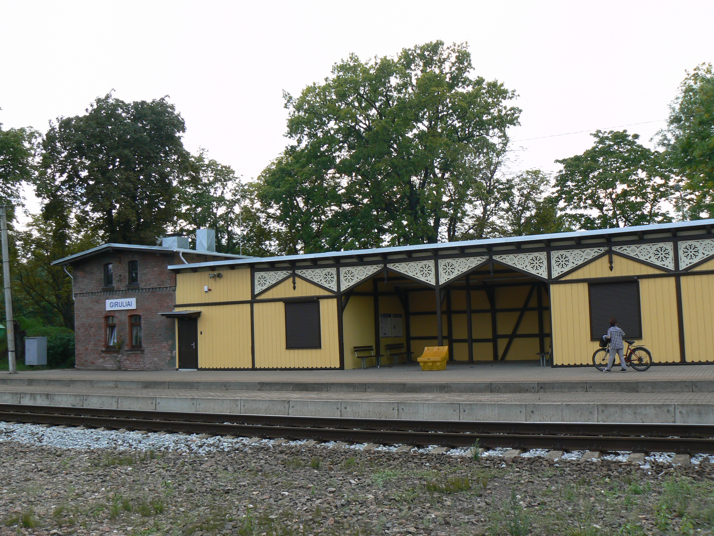 Train station in Giruliai, Lithuania